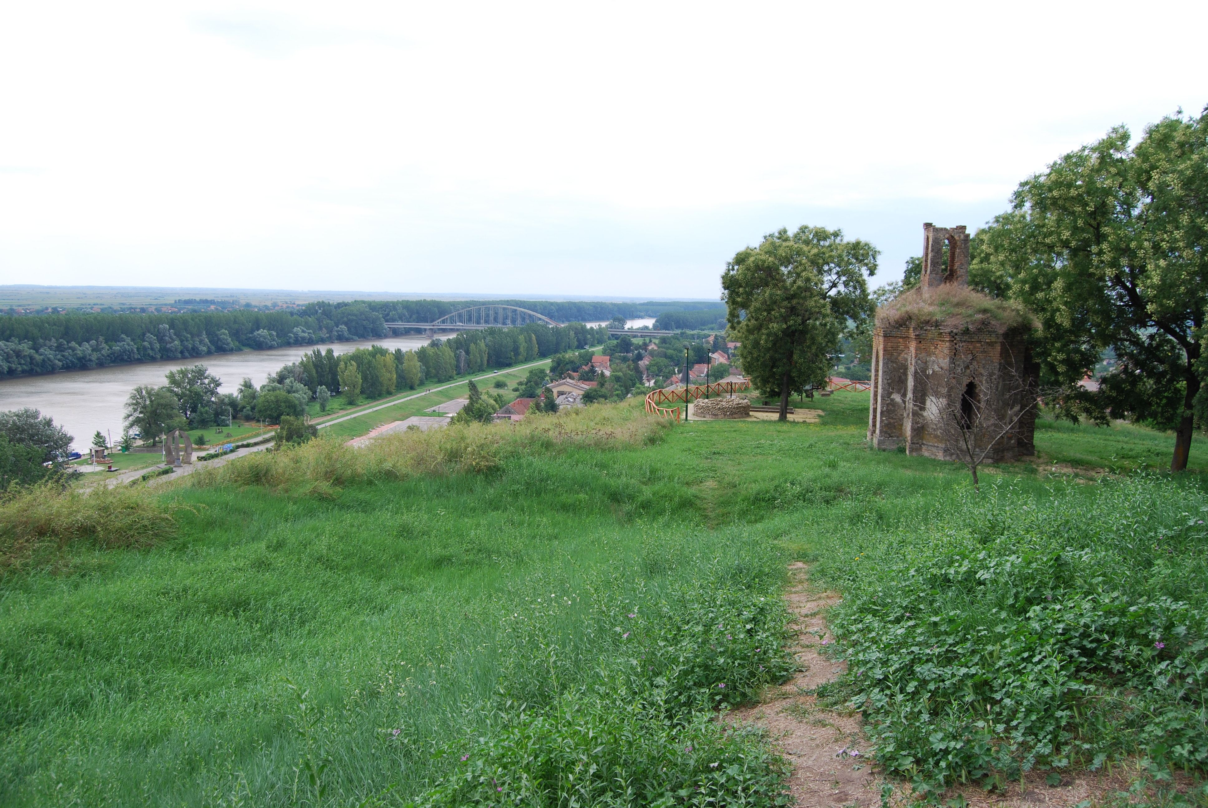 Archeological site in Kalvarija- Titelski breg